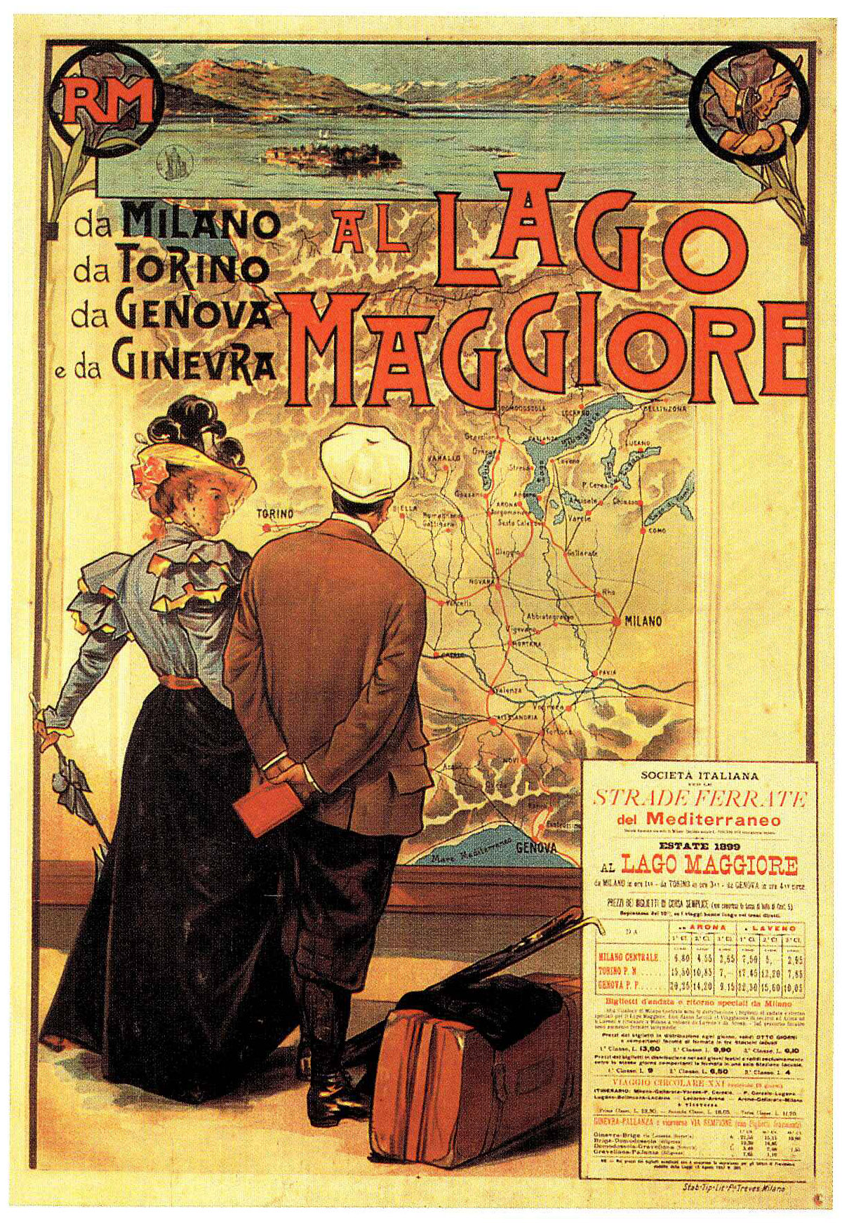 Poster with train schedules for northwestern Italy. Published by the Società per le Strade Ferrate del Mediterraneo in 1899.